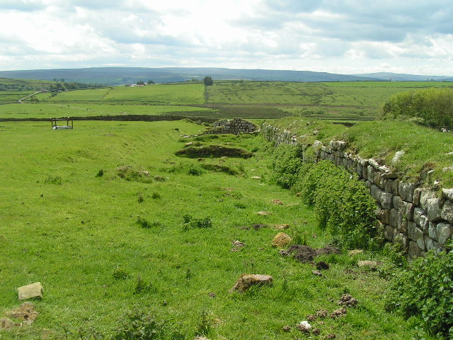 Aesica (Great Chesters) Roman Fort. Remains of a Roman Fort on Hadrian's Wall - for more information.